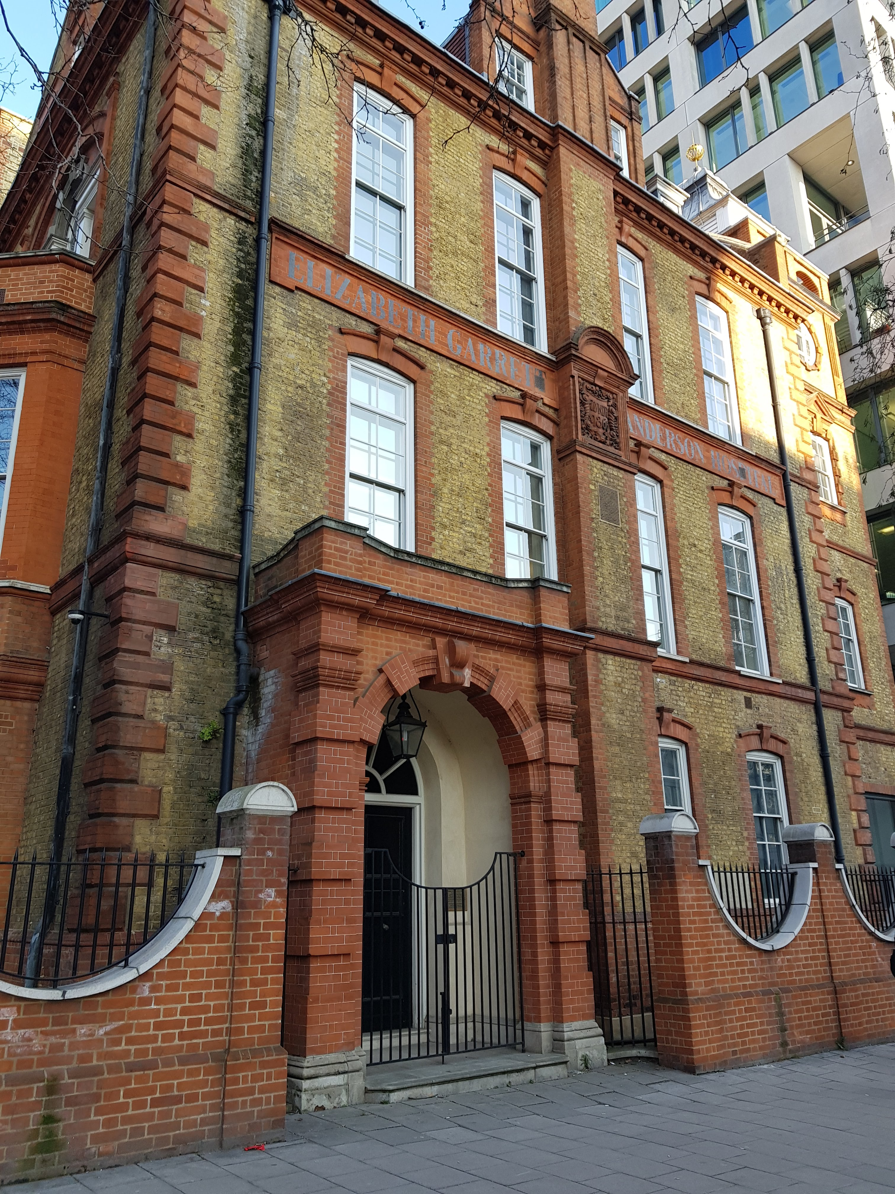 Photograph showing The New Hospital for Women, now occupied by Unison, in 2018